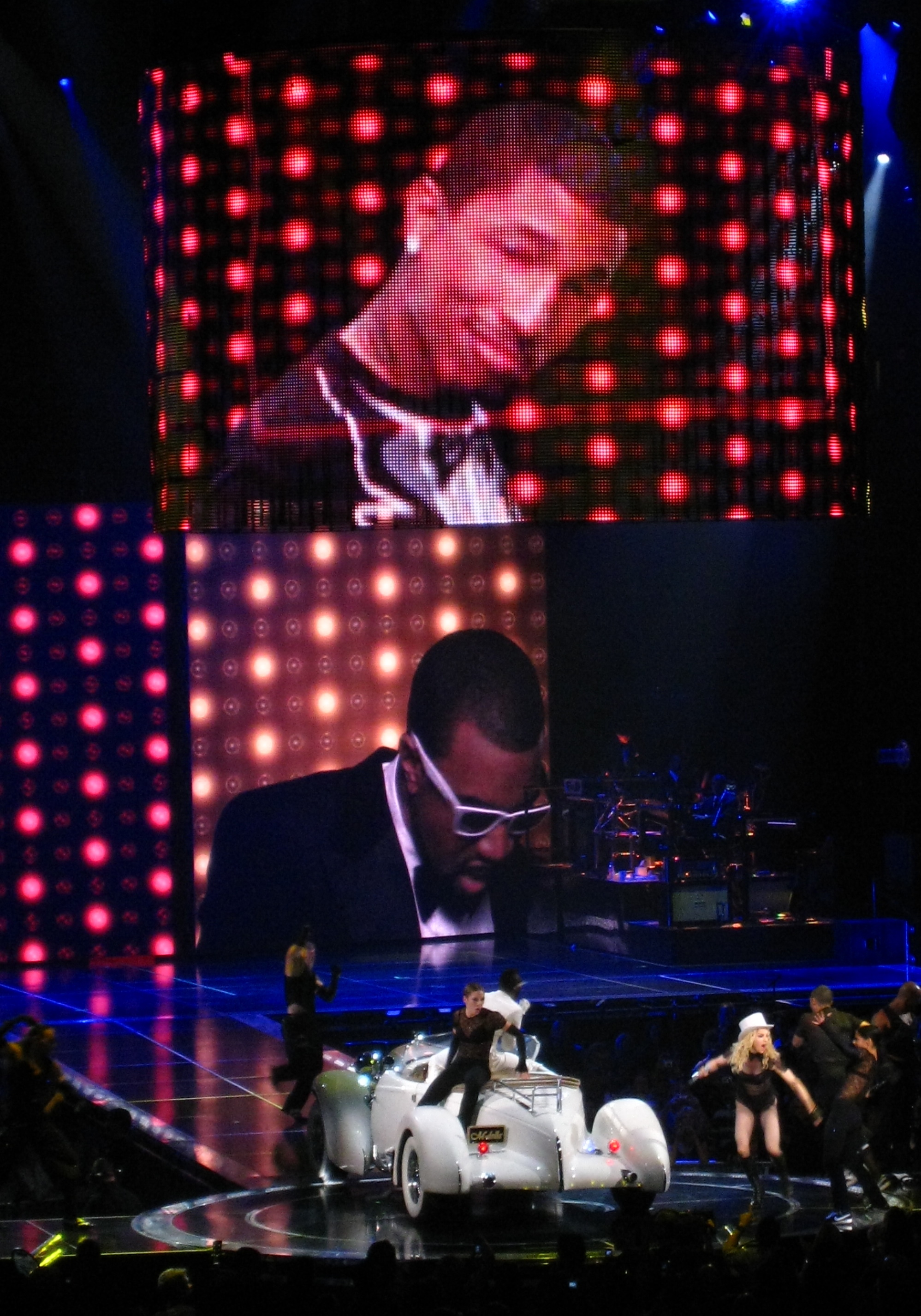 Taken at the Madonna 'Sticky & Sweet' Tour' Concert @ Bell Centre, Montreal, Canada on 23rd October, 2008. Madonna performs "Beat Goes On" on stage as Pharell Williams and Kanye West appear on screen